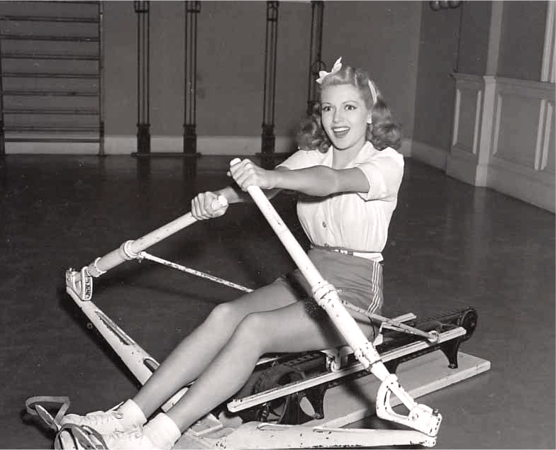 Lana Turner on set of Dancing Coed (1939)